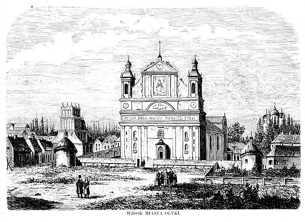 View of Olyka. Left - Town Hall, the center - Catholic collegiate church of Holy Trinity, right - Holy Trinity Church, destroyed in 1871 (new built in 1886).